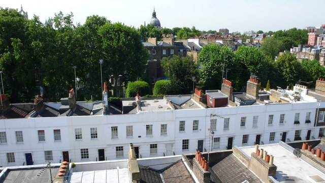 Walton Street, London SW3 View north across the roof tops of Walton Street, past the rear of Egerton Crescent towards the dome of the Brompton Oratory in the background of the frame.